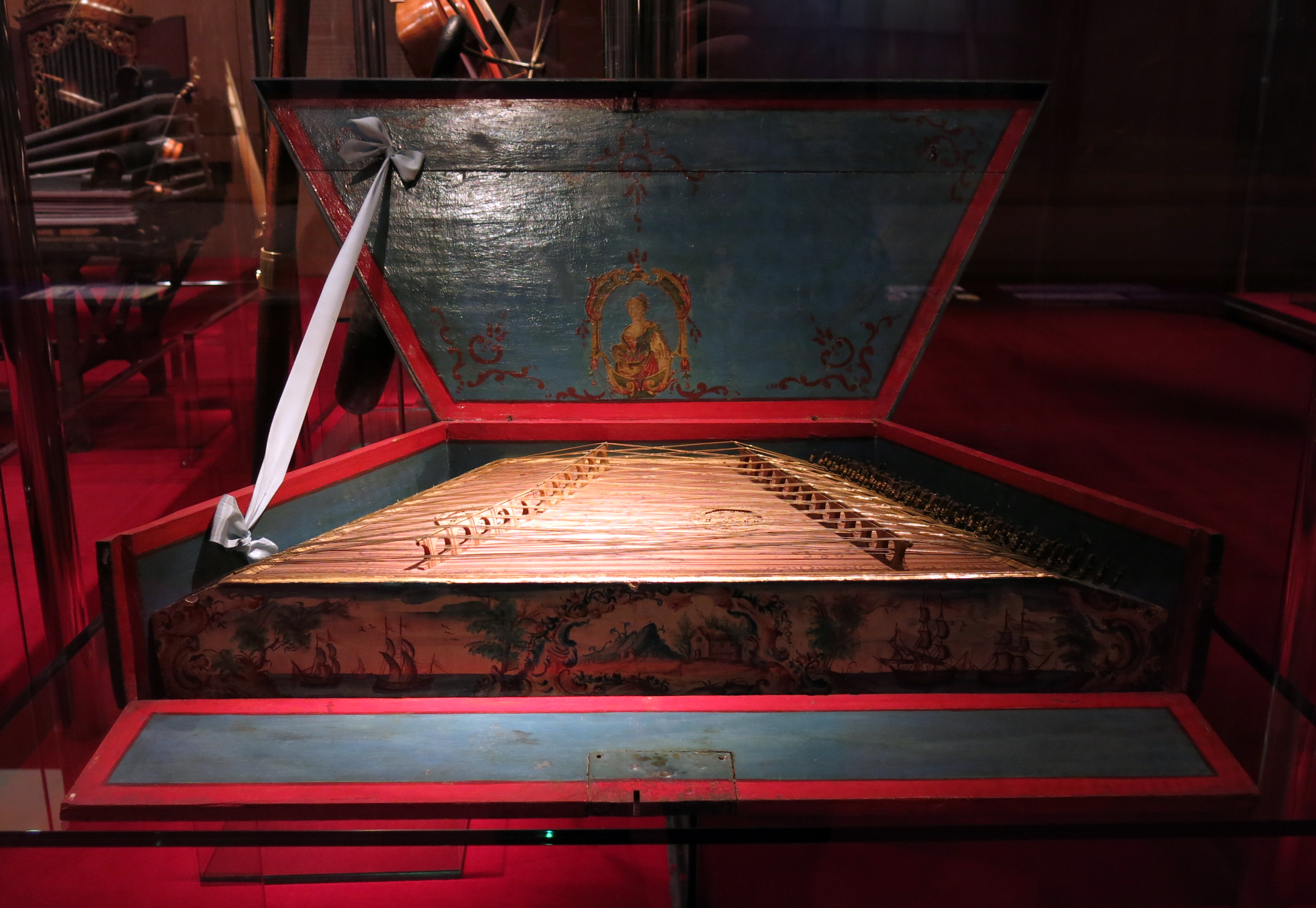 Psaltery, Spain, s. XVIII, Museu de la Música de Barcelona, MDMB 486